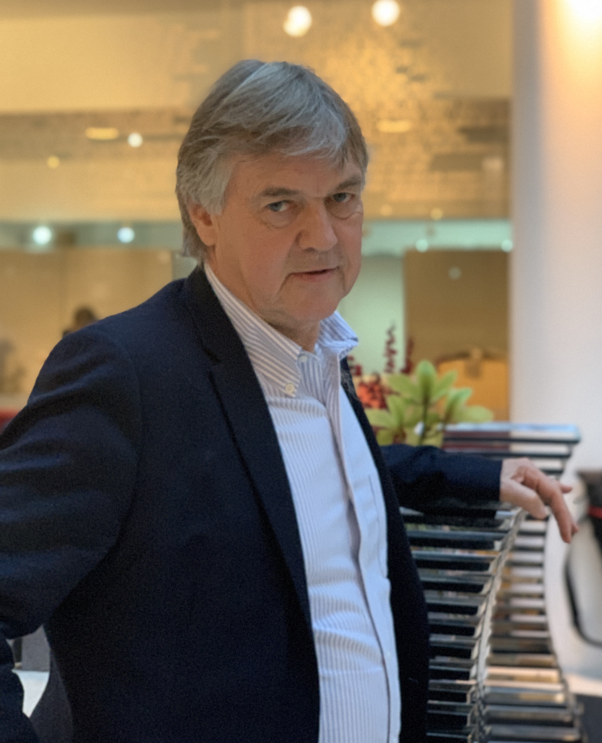 Roger Kirby in discussion with nutritionist, 1 Wimpole Street